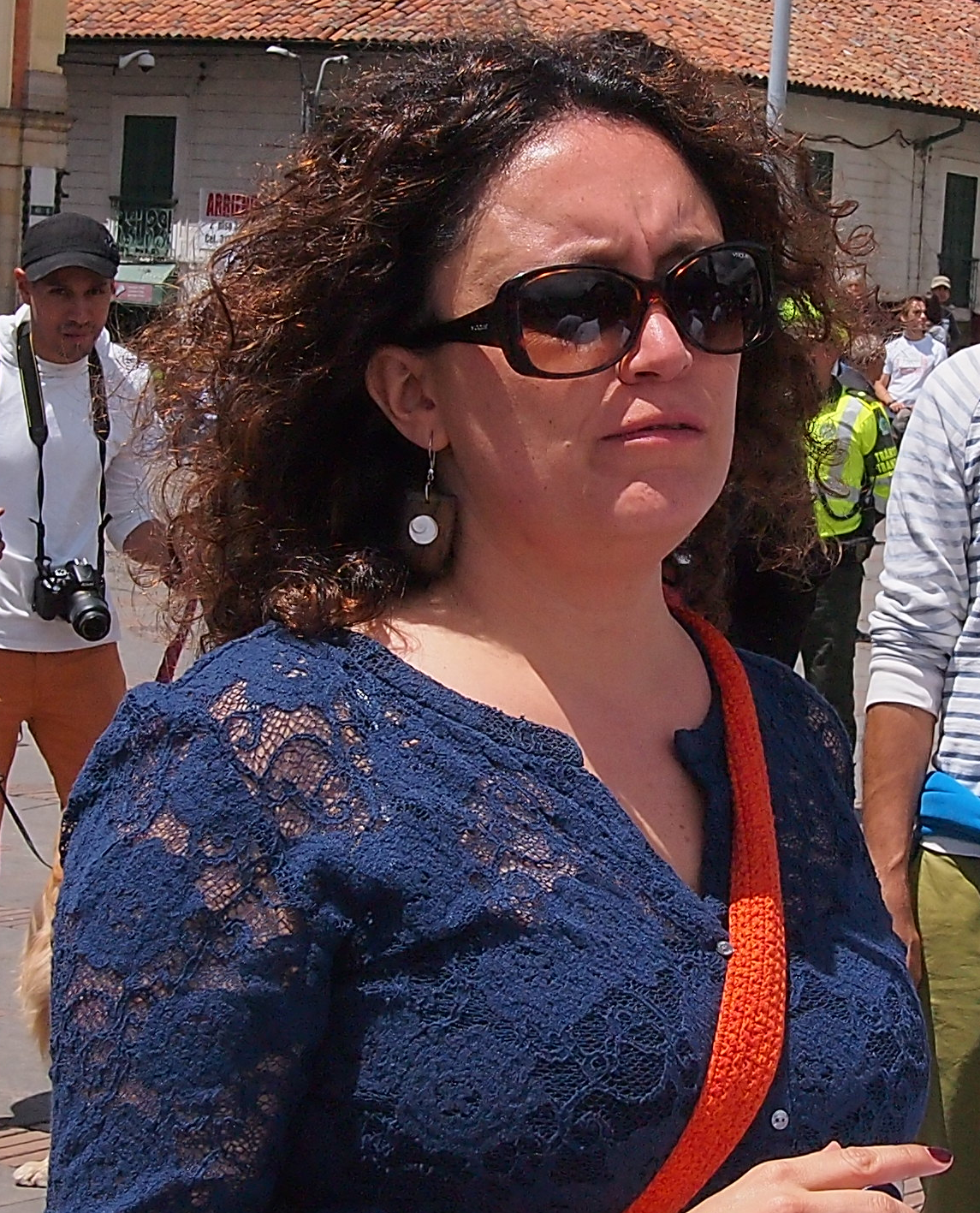 Angelica Lozano